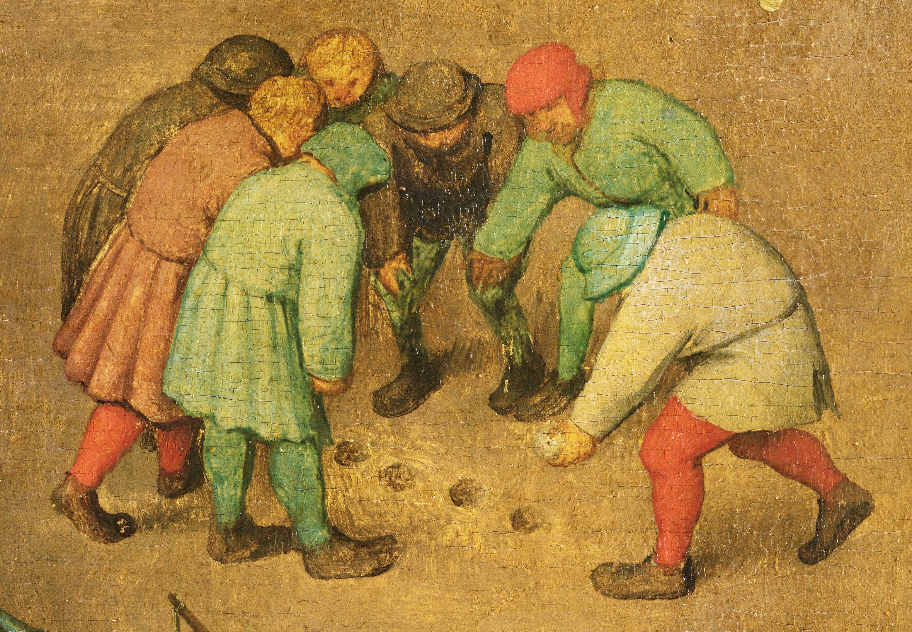 Detail from Children's Games by Pieter Bruegel the Elder